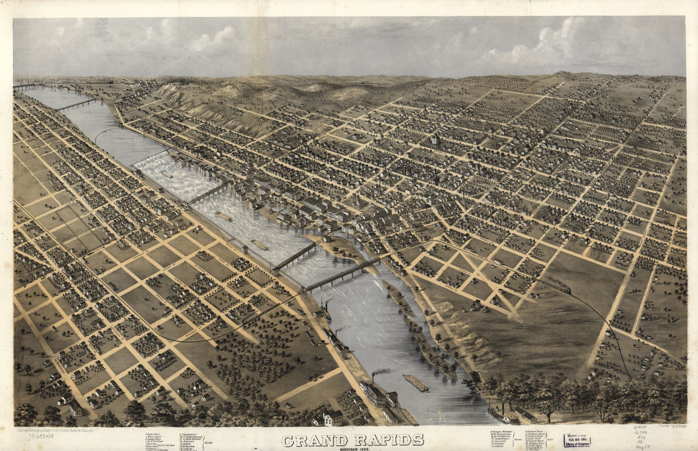 A perspective map of Grand Rapids, Michigan made in 1868.